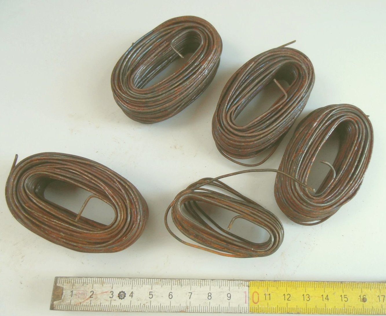 Rebar tie wire. A scale marked in centimetres and millimetres is shown for size reference.